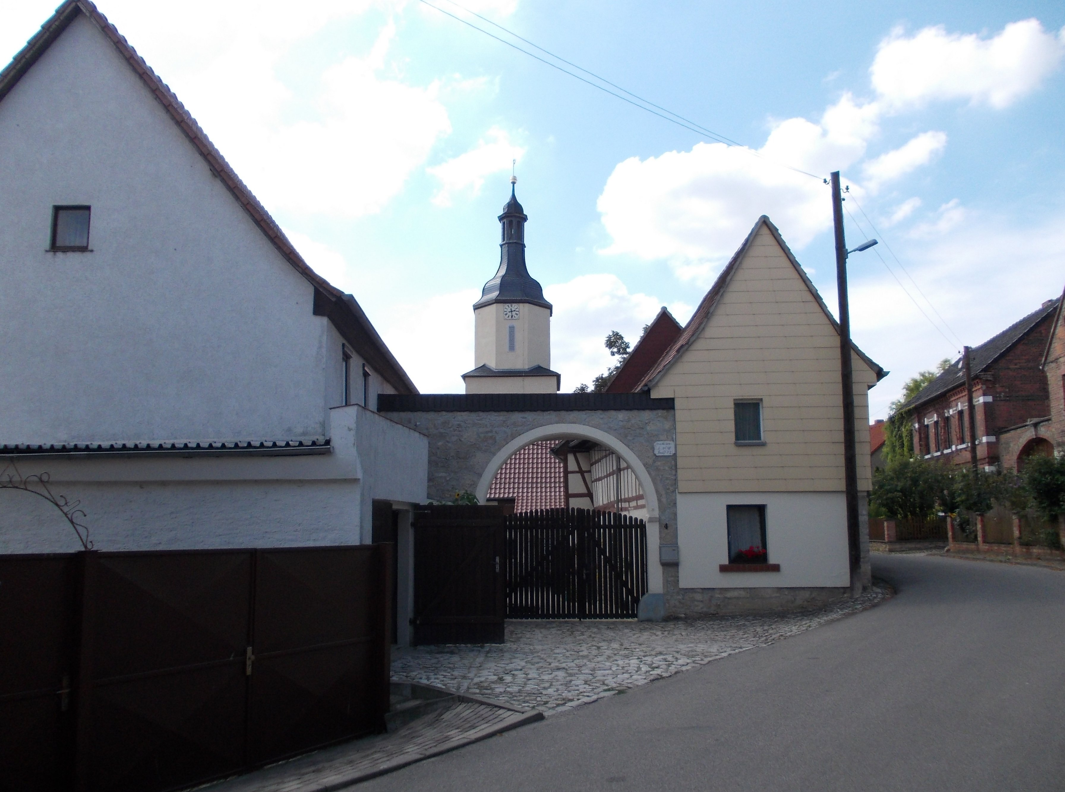 Farmstead from 1772 with the church in the background in Tultewitz (Naumburg, district of Burgenlandkreis, Saxony-Anhalt)